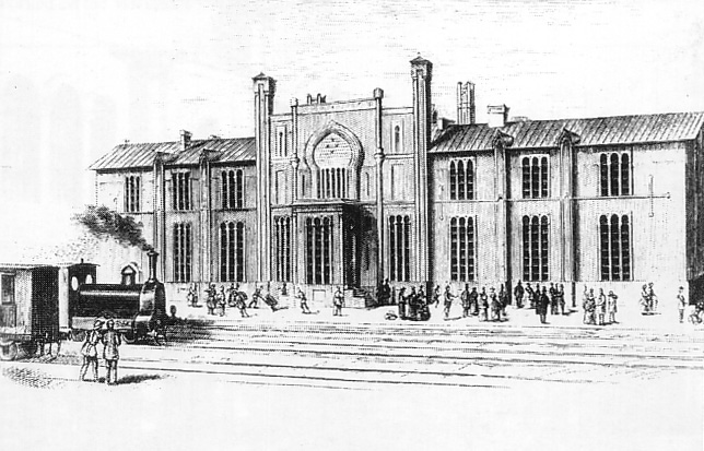 Warsaw-Wienna Railway, Skierniewice rail station (1872), Poland